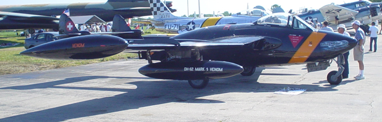 de Havilland Venom (ex.Swiss Air Force). Picture taken at Willow Run Airport, Van Buren Township, Michigan in August of 2002